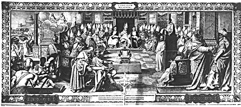 One of the frescoes of the Ecumenical Councils in the Sistine Salon at Vatican. Council of Nicea 325 A.D.